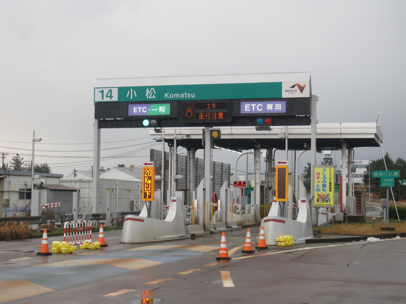 Komatsu Inter Change (Hokuriku Expressway)